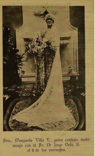 Ejemplo Foto matrimonio, Junio 1928